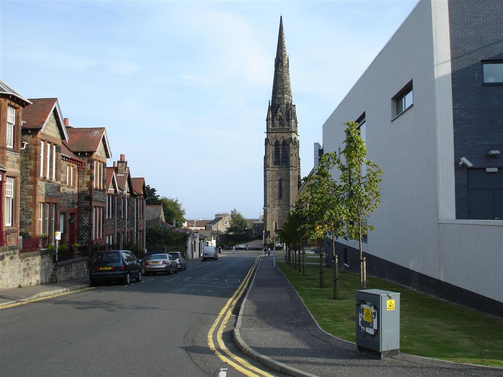 Adam Smith College on the right, with St. Brycedale church behind it. Taken from partway up Carlyle Road, Kirkcaldy.